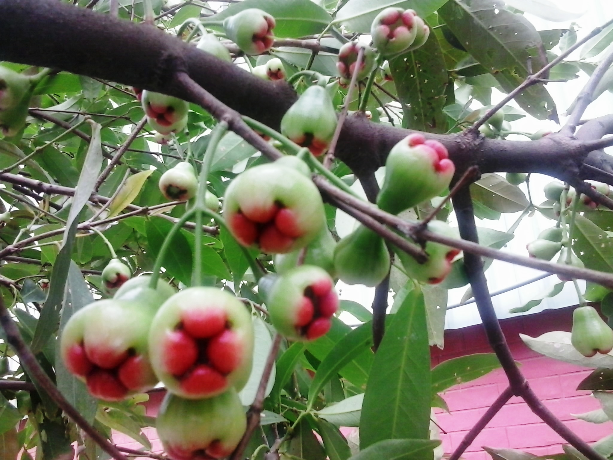 Jamrul